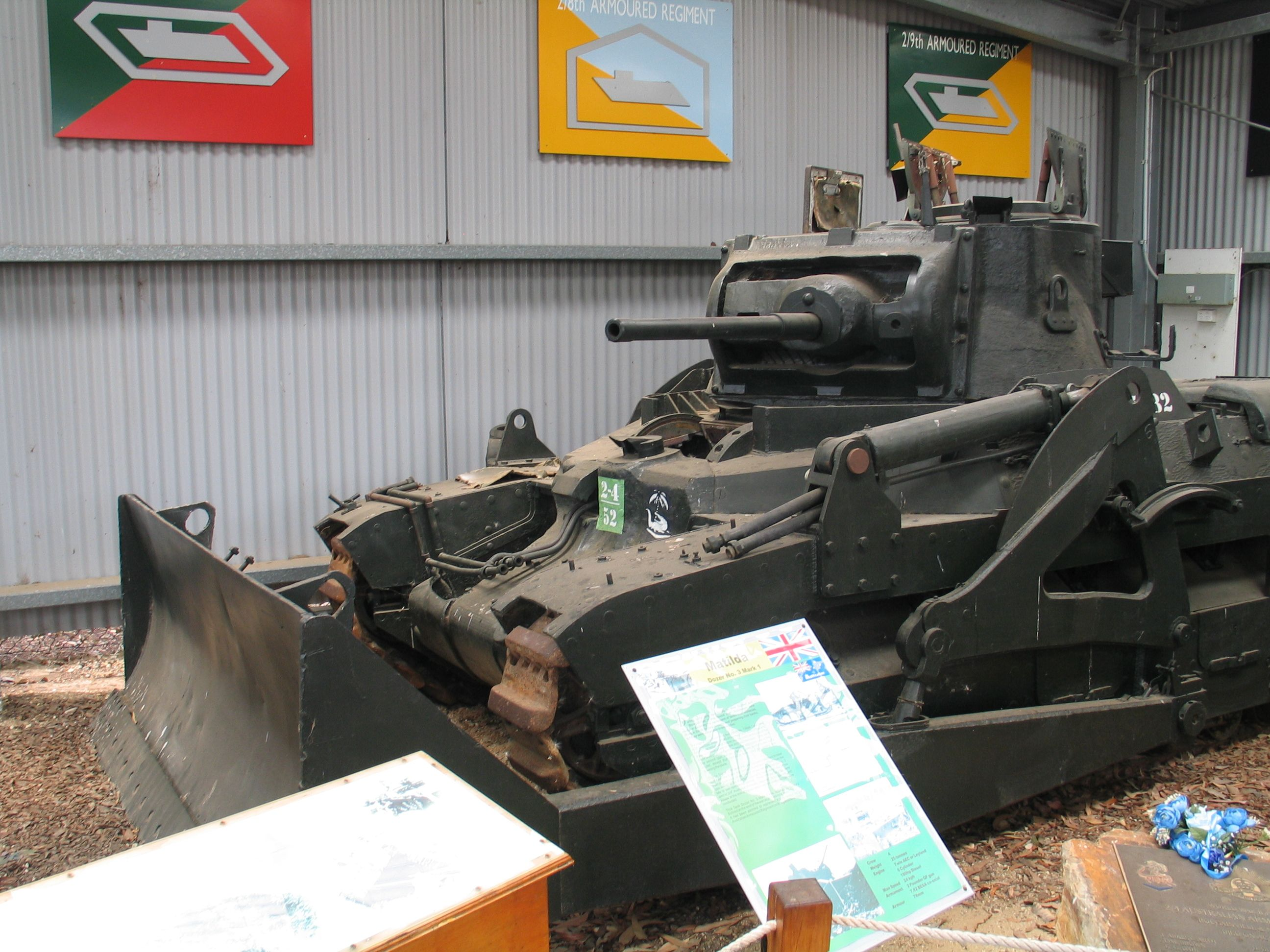 Infantry Tank Mk II Matilda with Tank Dozer No 3 Mk I in Royal Australian Armoured Corps Tank Museum, Puckapunyal, Victoria, Australia.